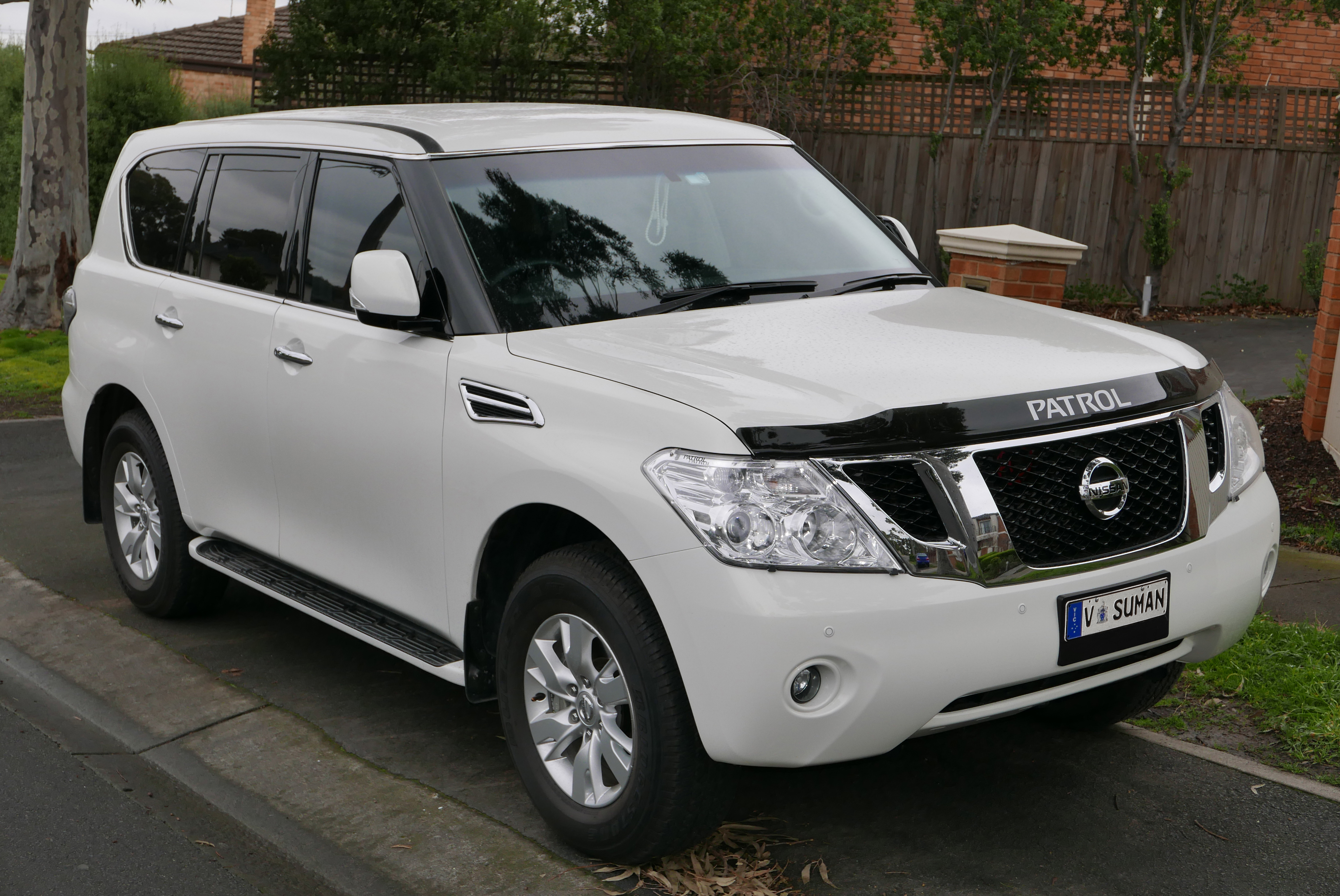 2014 Nissan Patrol (Y62) ST-L wagon. Photographed in Doncaster, Victoria, Australia. Vehicle registration enquiry resultsJurisdictionVictoriaRegistrationVSUMANChassis codeJN1TANY62A0001214Engine codeVK56VD085091ACompliance date2014-01Year of manufacture2014